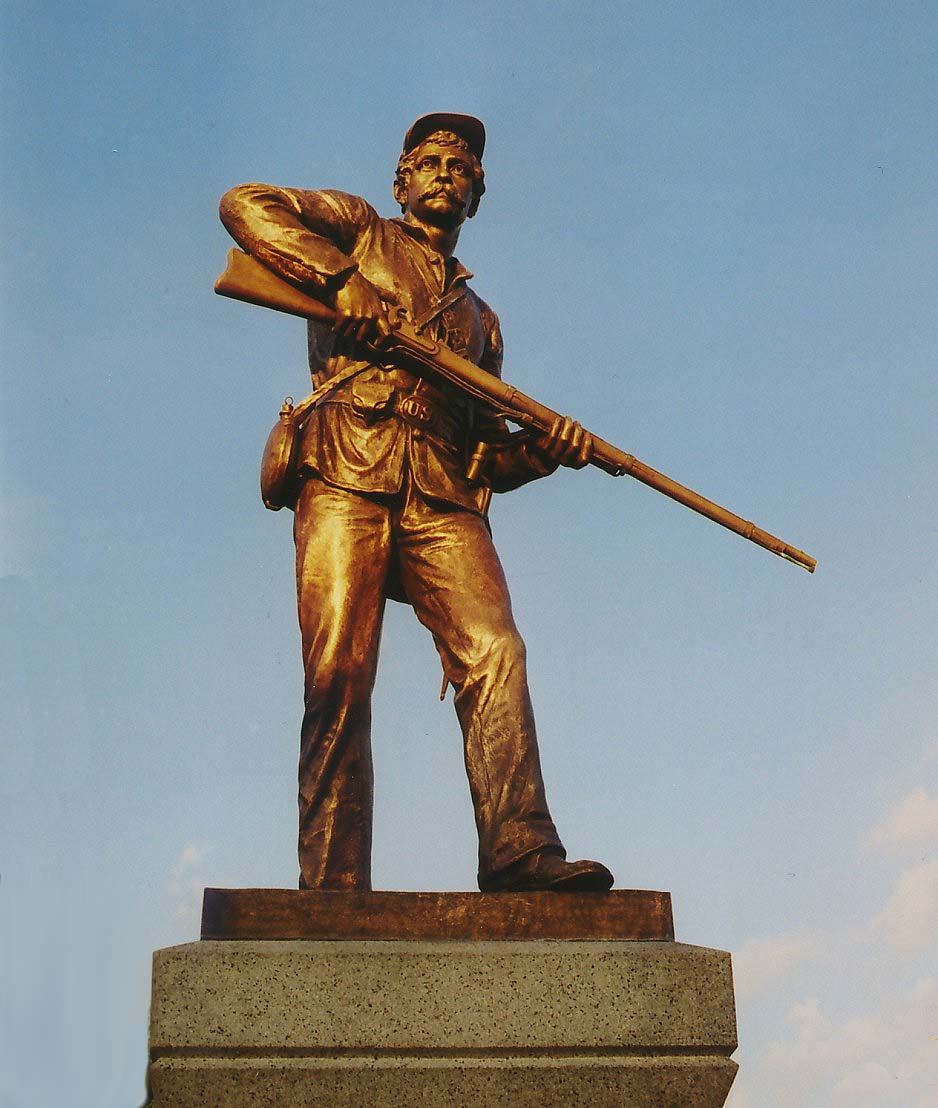 111th NY Infantry monument, Gettysburg battlefield, by Caspar Buberl. 1891